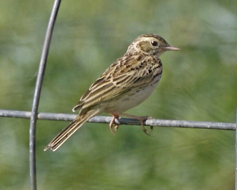 Australian Pipit (Anthus australis) Nominate race , Anthus australis australis (H&M) Anthus novaeseelandiae ssp Anthus novaeseelandiae australis (Clements 6th. edition) Capertee Valley, Blue Mountains, NSW, Australia 10th. February 2008 690V1954